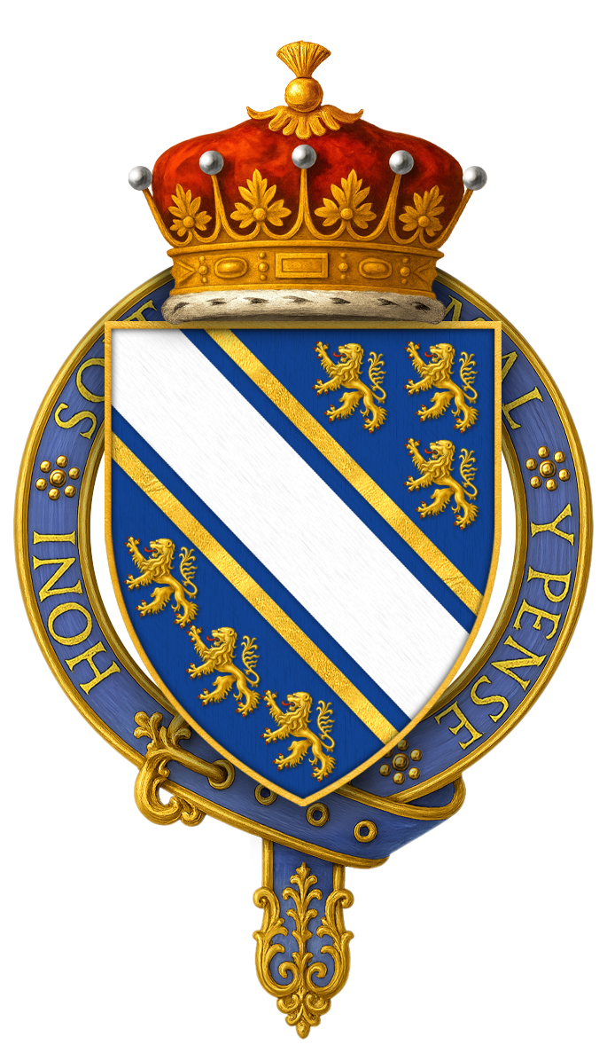 Coat of Arms of Sir Humphrey de Bohun, 7th Earl of Hereford, KG “Humphrey Bohun, Earl of Hereford, Essex, and Northampton… Arms: Azure, a bend cottised Argent between six lions rampant Or.” BELTZ, George Frederick, Memorials of the Order of the Garter from Its Foundation to the Present Time, London: William Pickering, 1841.